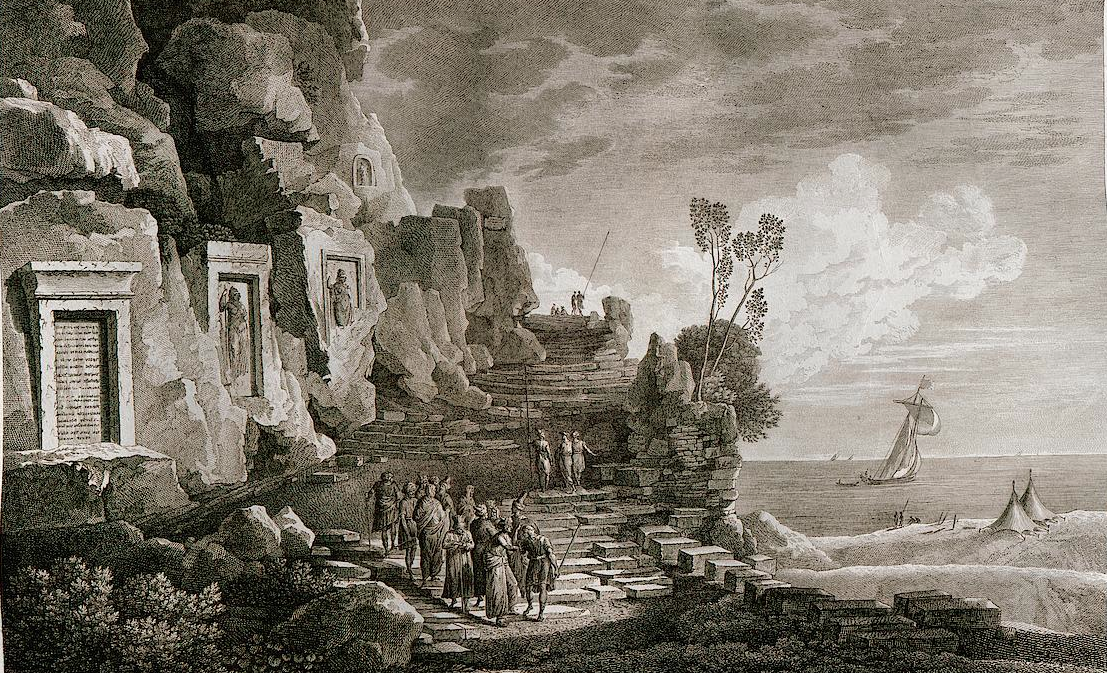 Nahr el Kelb inscriptions, Louis François Cassas, 1799